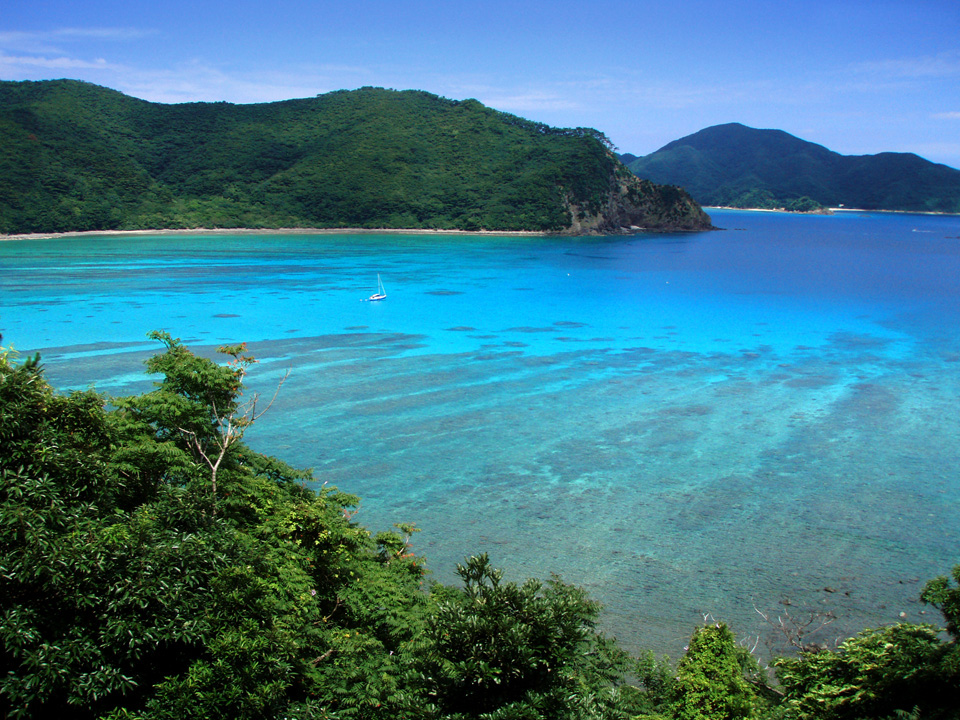 View of Katetsu cove from nearby Manen-zaki(Cape Manen) in Setouchi-cho, Ohshima-gun, Kagoshima-ken, Japan.